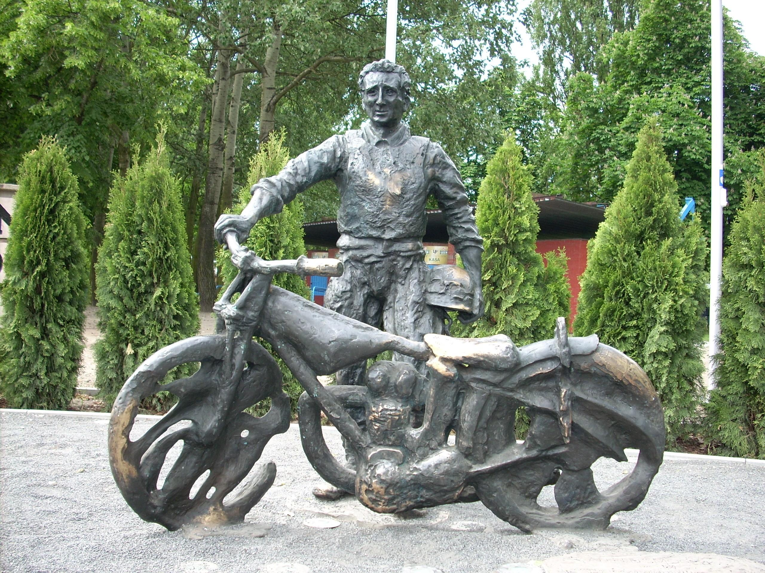 Monument of Alfred Smoczyk - Polish sportman